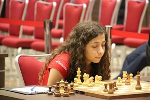 WFM Maya Jalloul during a recent game.